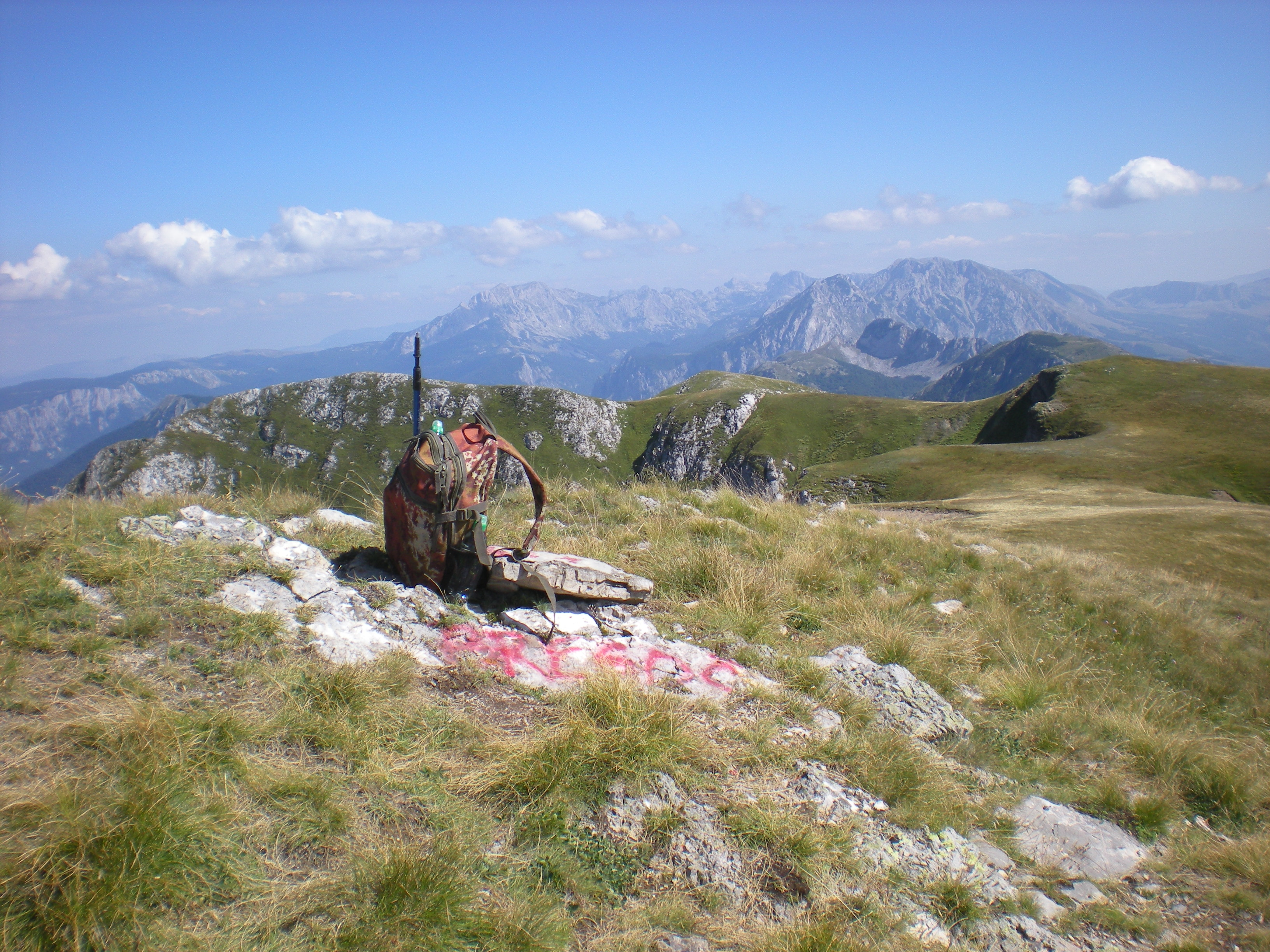 View from Bregoc, highest summit of the Zelengora range in Bosnia Herzegovina. Maglic and Volujak in the background.